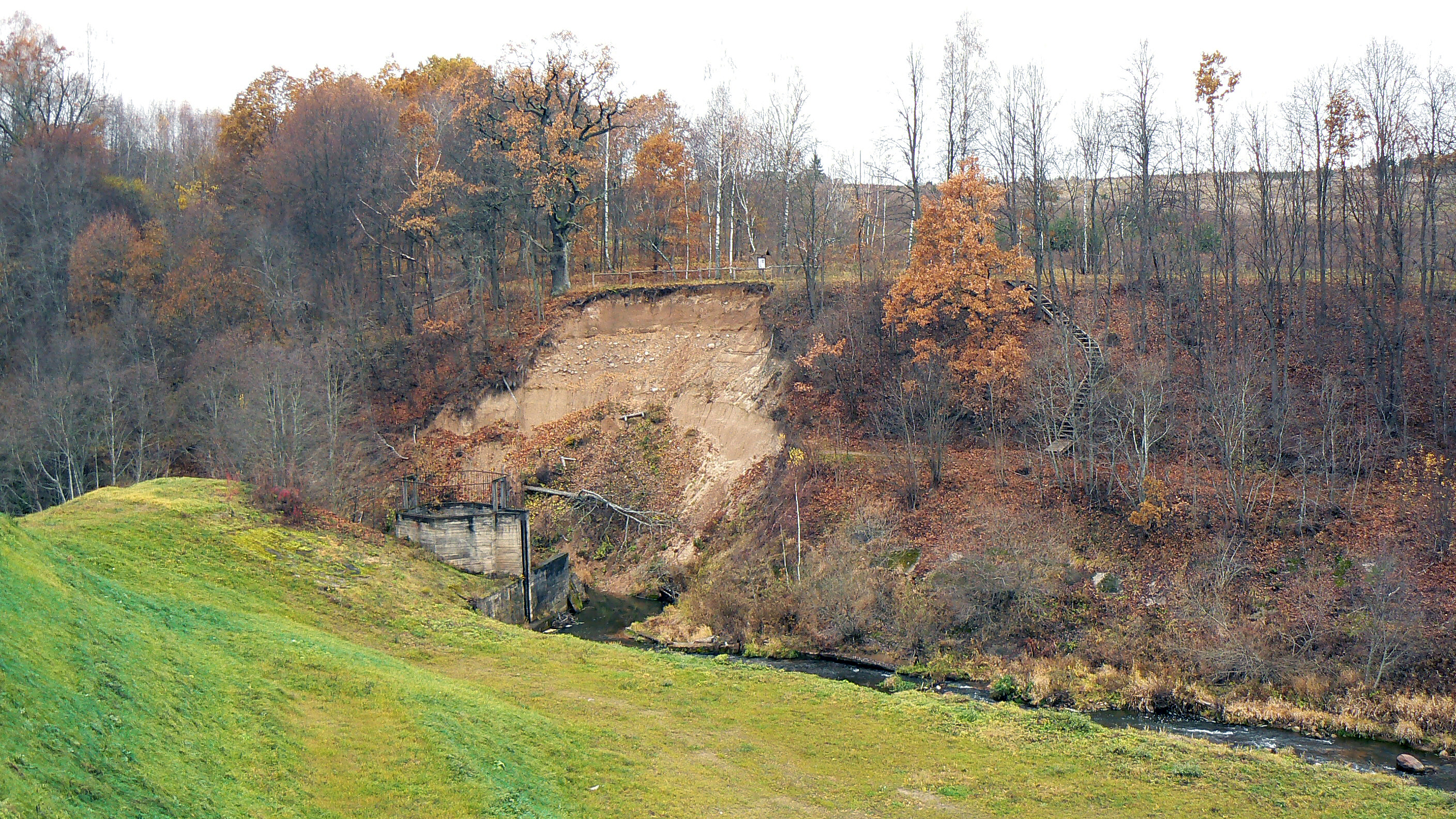 Dūkštos outcrop.